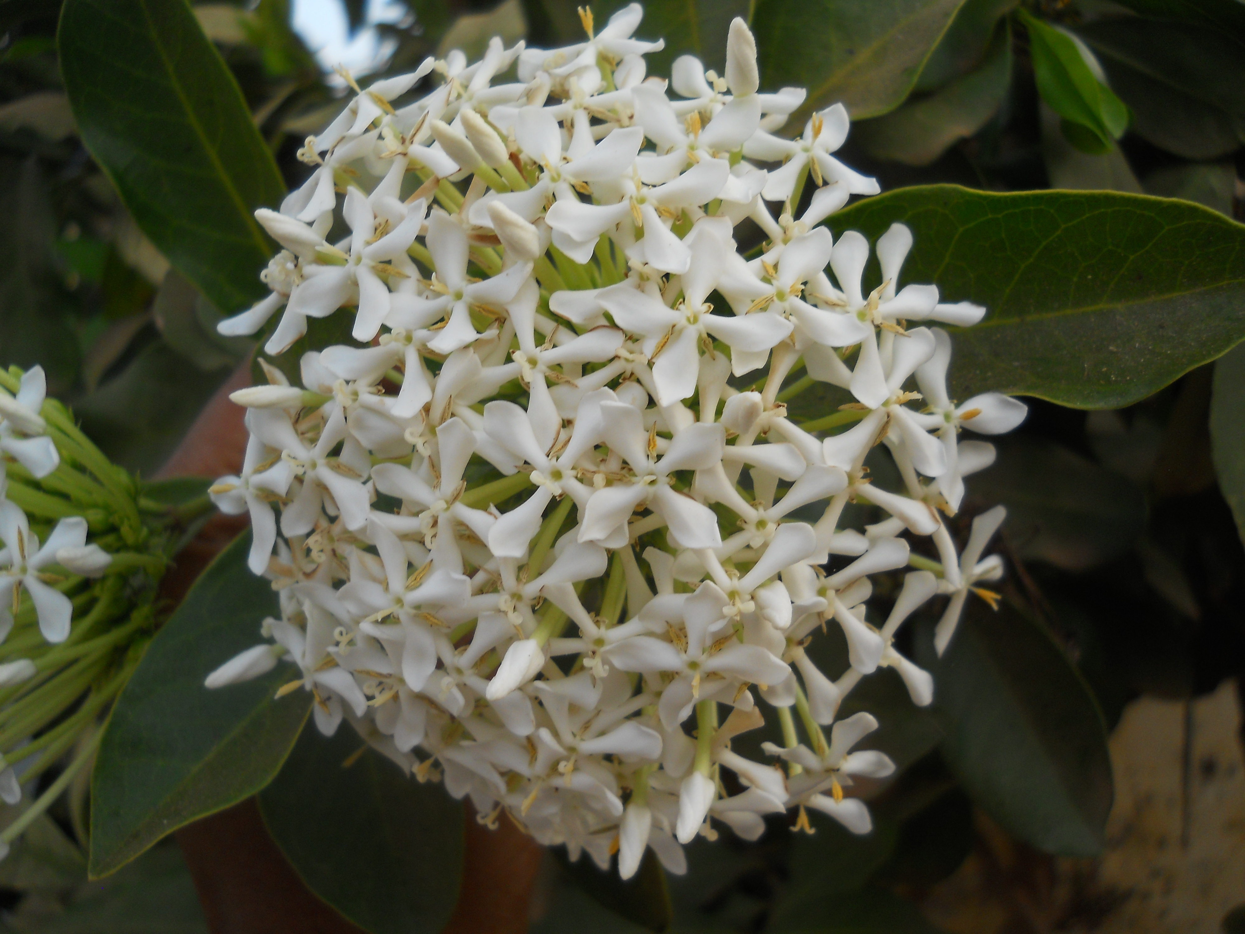 Ixora-White flower in India